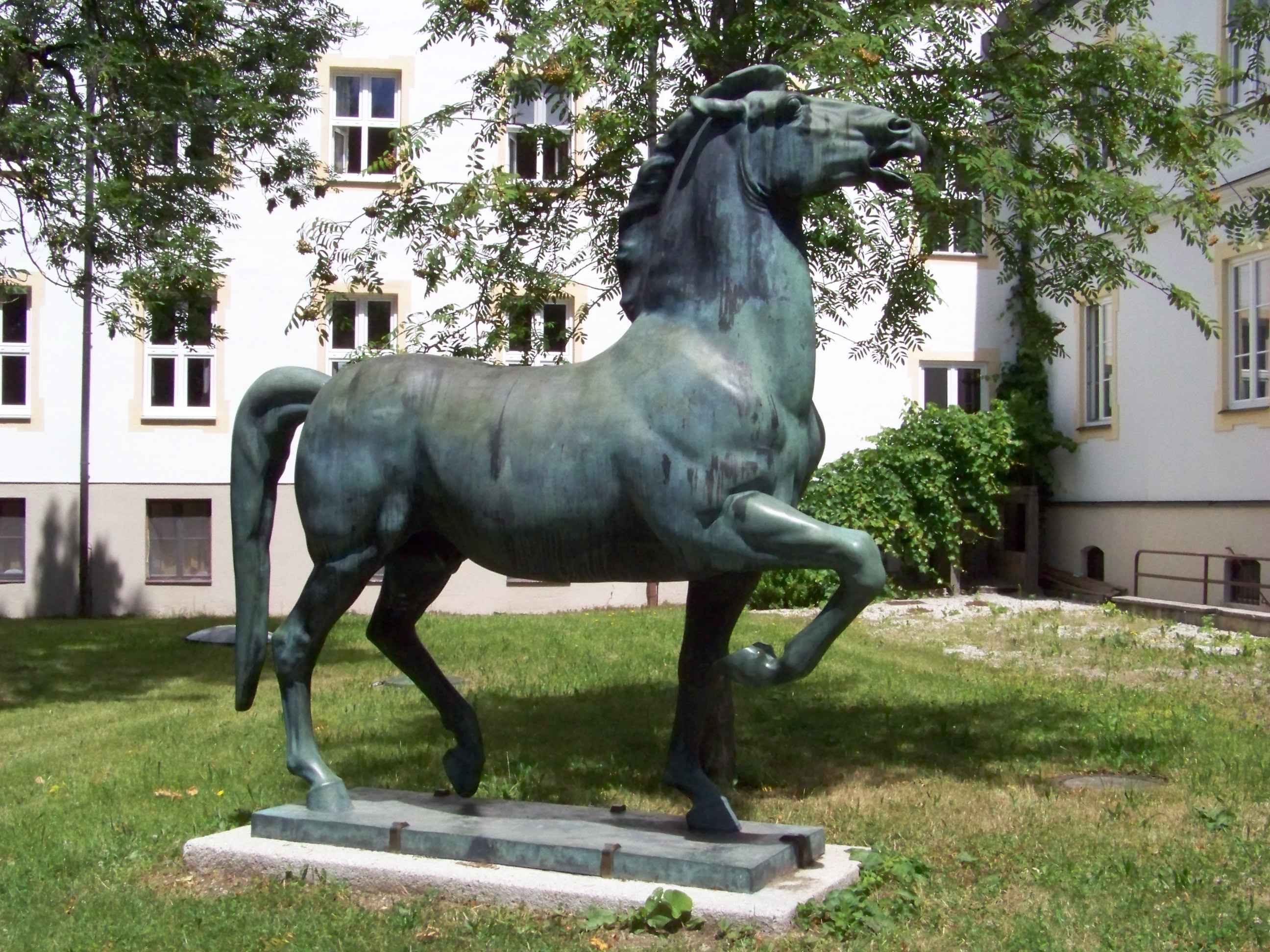 Bronze statue "Striding Horse" by Josef Thorak in Ising, Bavaria, Germany